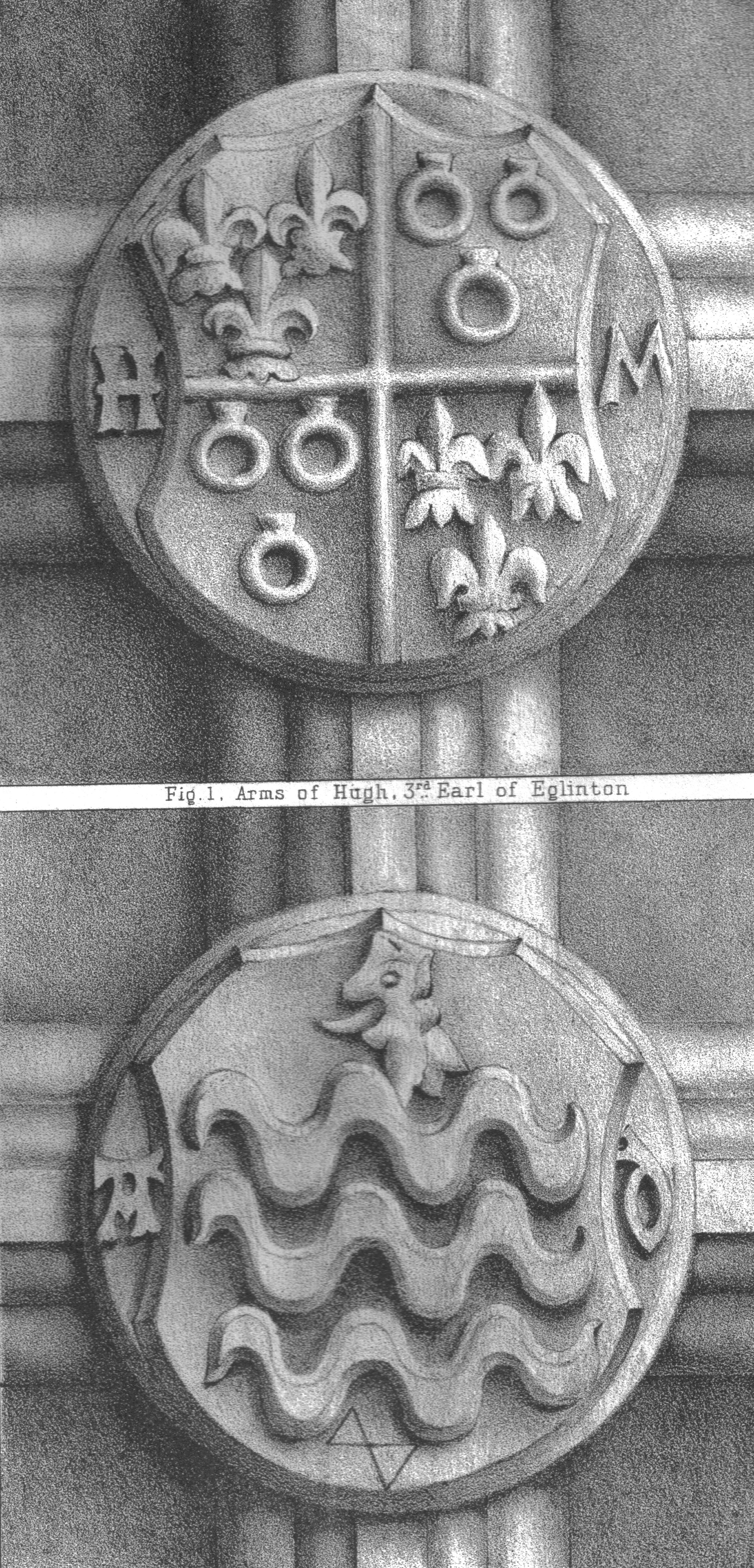 Coat of arms of Drummond and Montgomerie families. Seagate Castle, Irvine, Ayrshire, Scotland